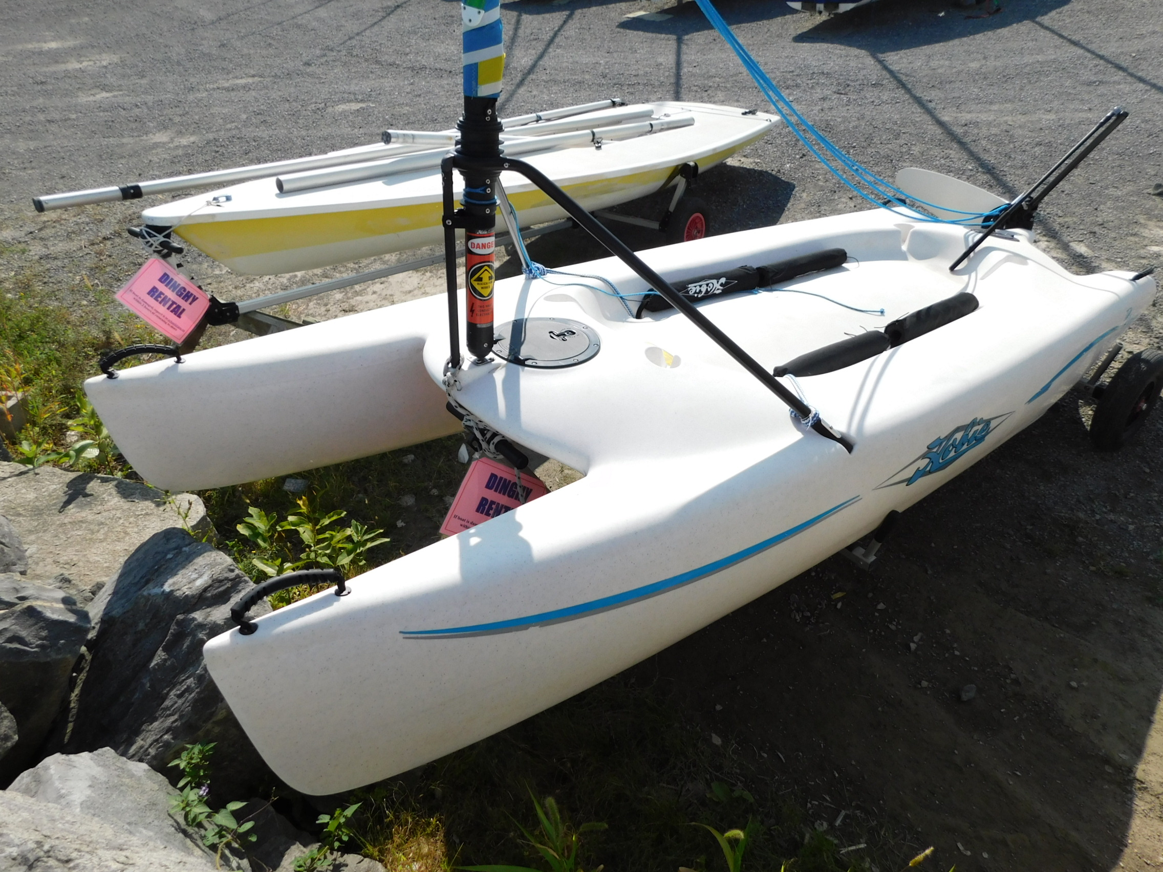 Hobie Bravo catamaran sailboat hull view. The boat in the background is a Laser dinghy.